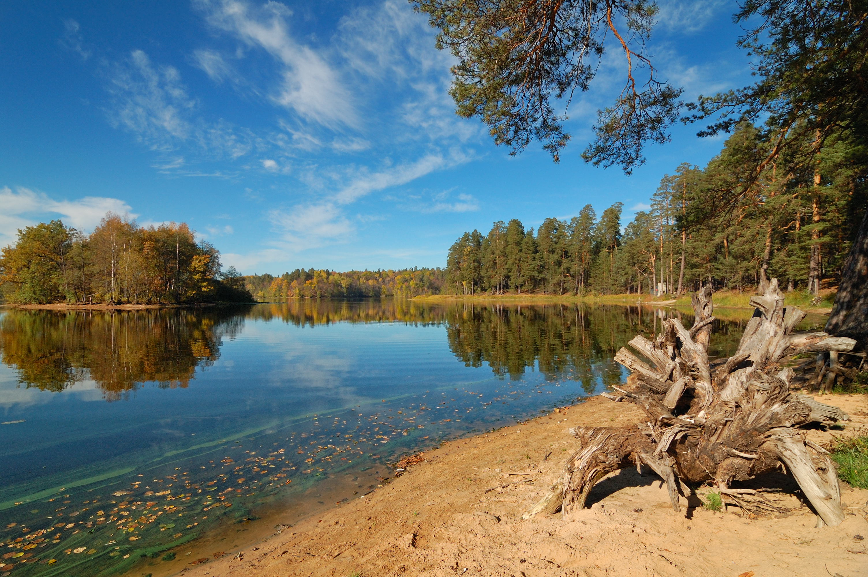 Pustynskiye Lakes, Nizhny Novgorod Oblast, Russia This image is related to the protected area of Russia number 5210032